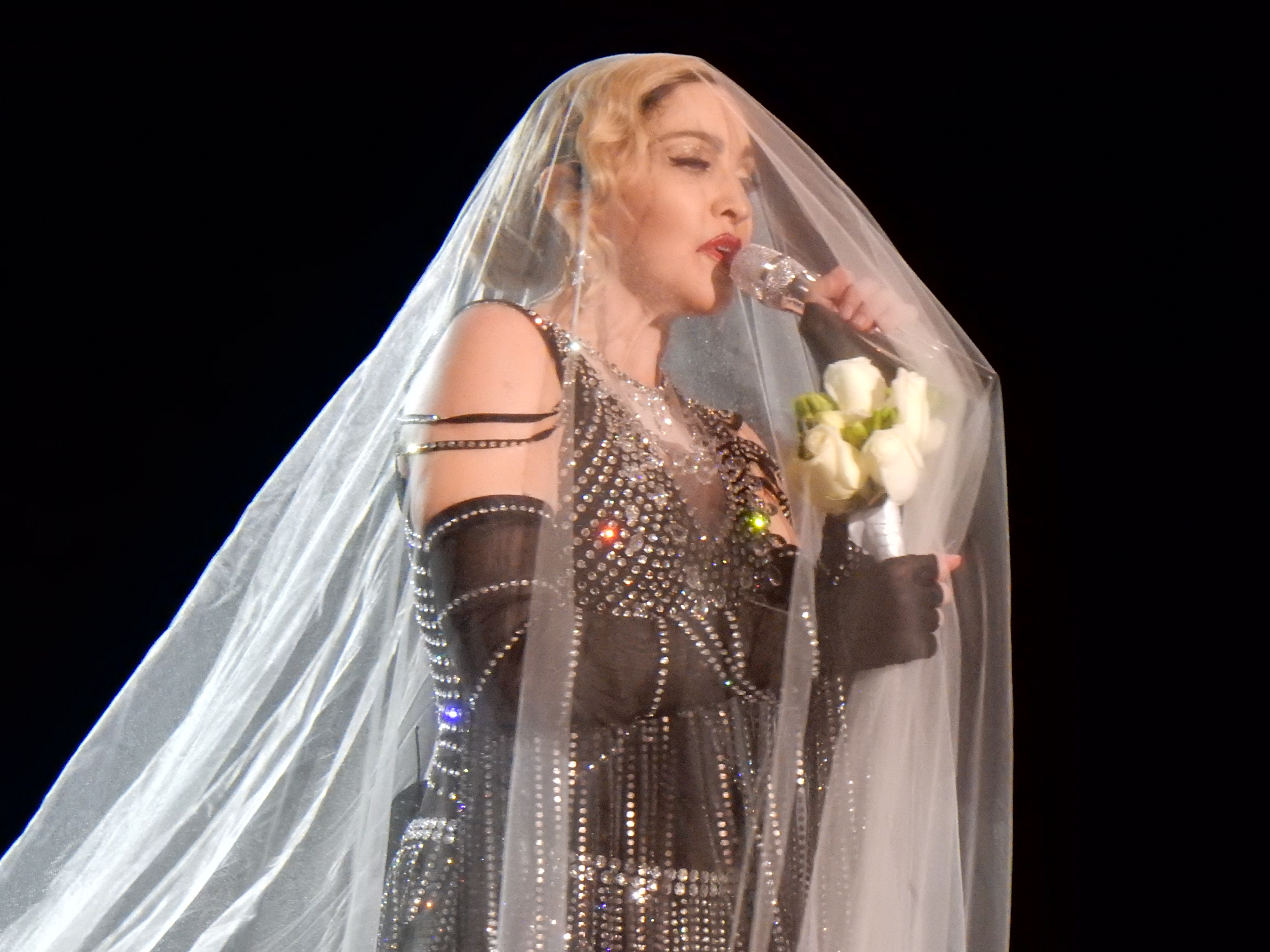 Madonna - Rebel Heart Tour 2015 - Paris 1